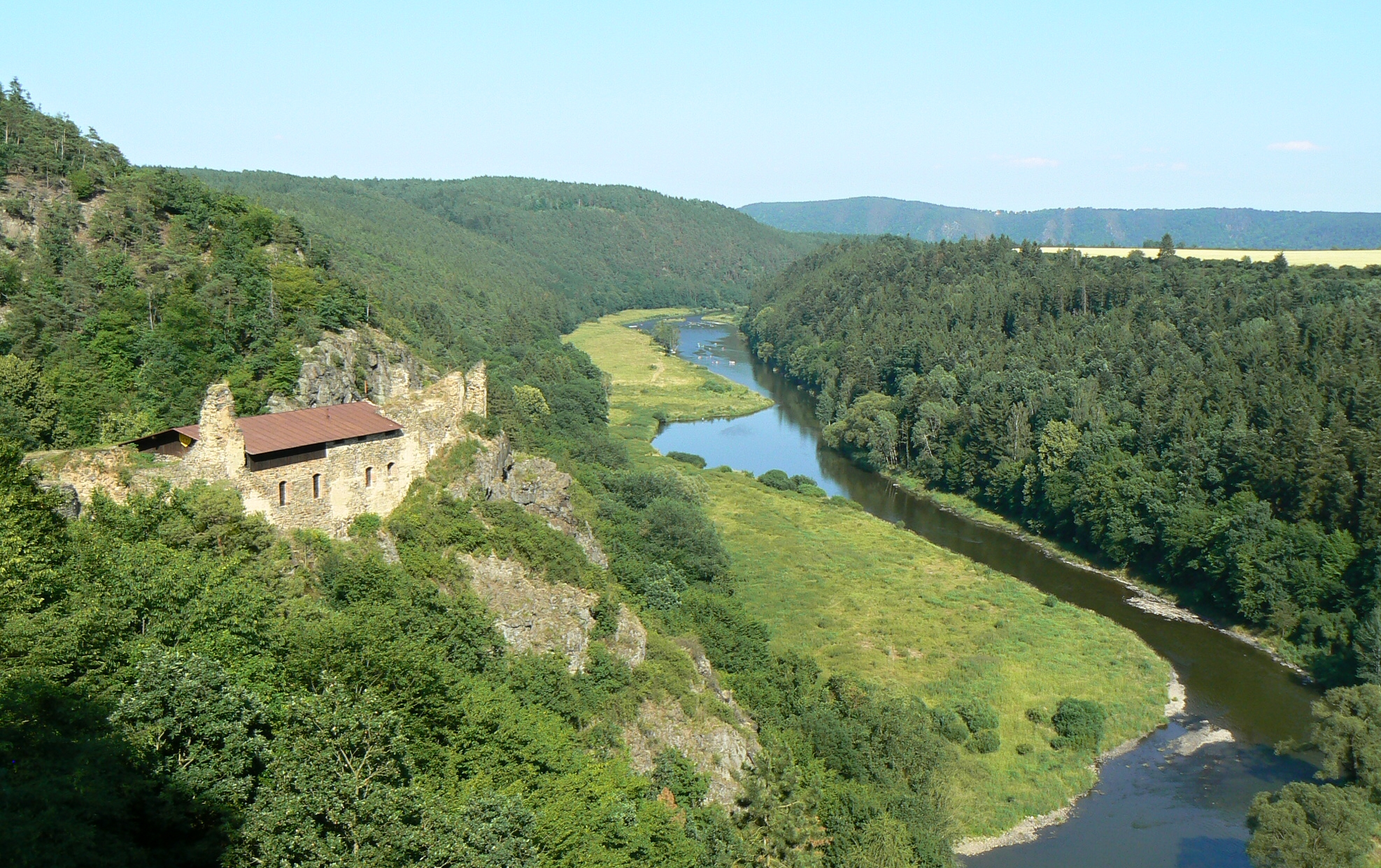 Ruins of the Krašov Castle upon river Berounka in Krašov nature reserve, Plzeň-sever District